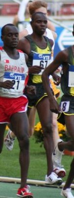 World athletics final Stuttgart 2007 1500m Nicholas Kemboi